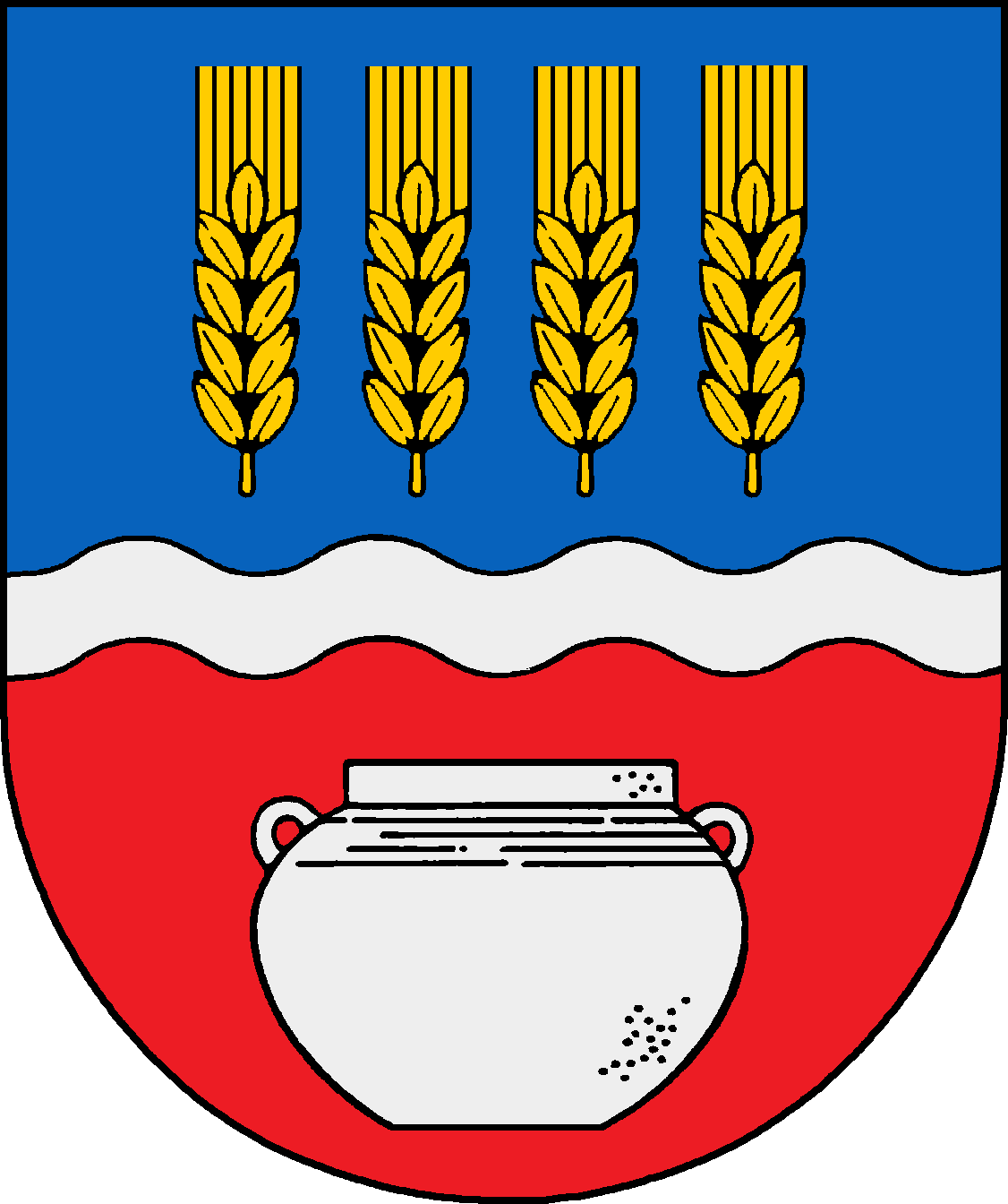 Coat of arms of the municipality Pölitz in Schleswig-Holstein, Germany.